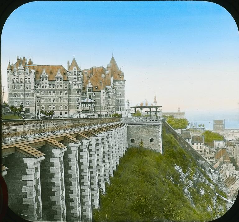 Photograph, glass lantern slide. Dufferin Terrace and Chateau Frontenac, Quebec City, QC, about 1895, by James Ricalton. Silver salts and transparent ink on glass - Gelatin dry plate process - 8 x 10 cm